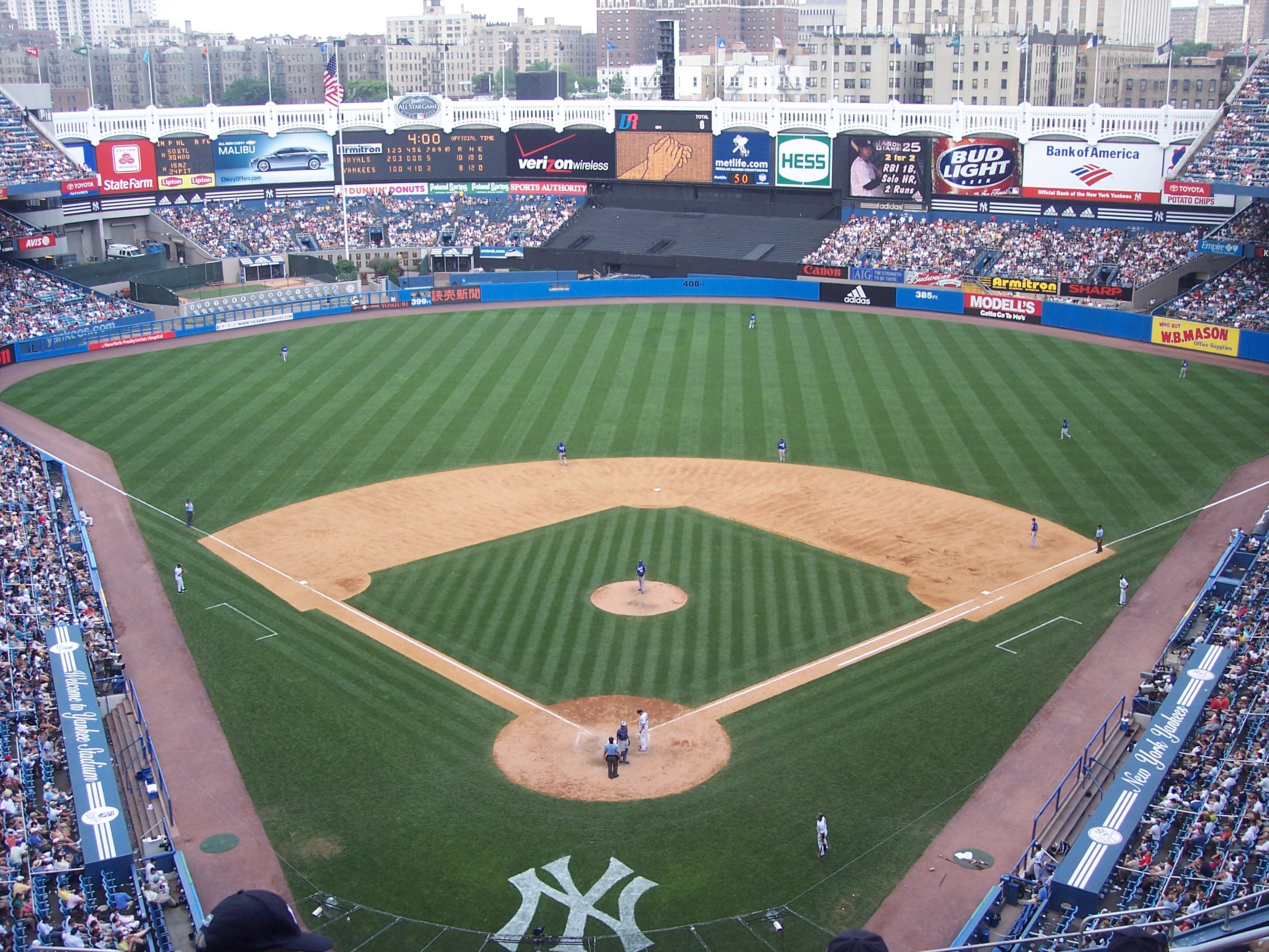 During 1974 and 1975, Yankee Stadium was renovated into its final shape and structure, as shown here. Yankee Stadium, New York's home field from 1923 to 1973, and 1976 to 2008. Yankee Stadium was home to the New York Yankees from 1923-1973, and 1976-2008.